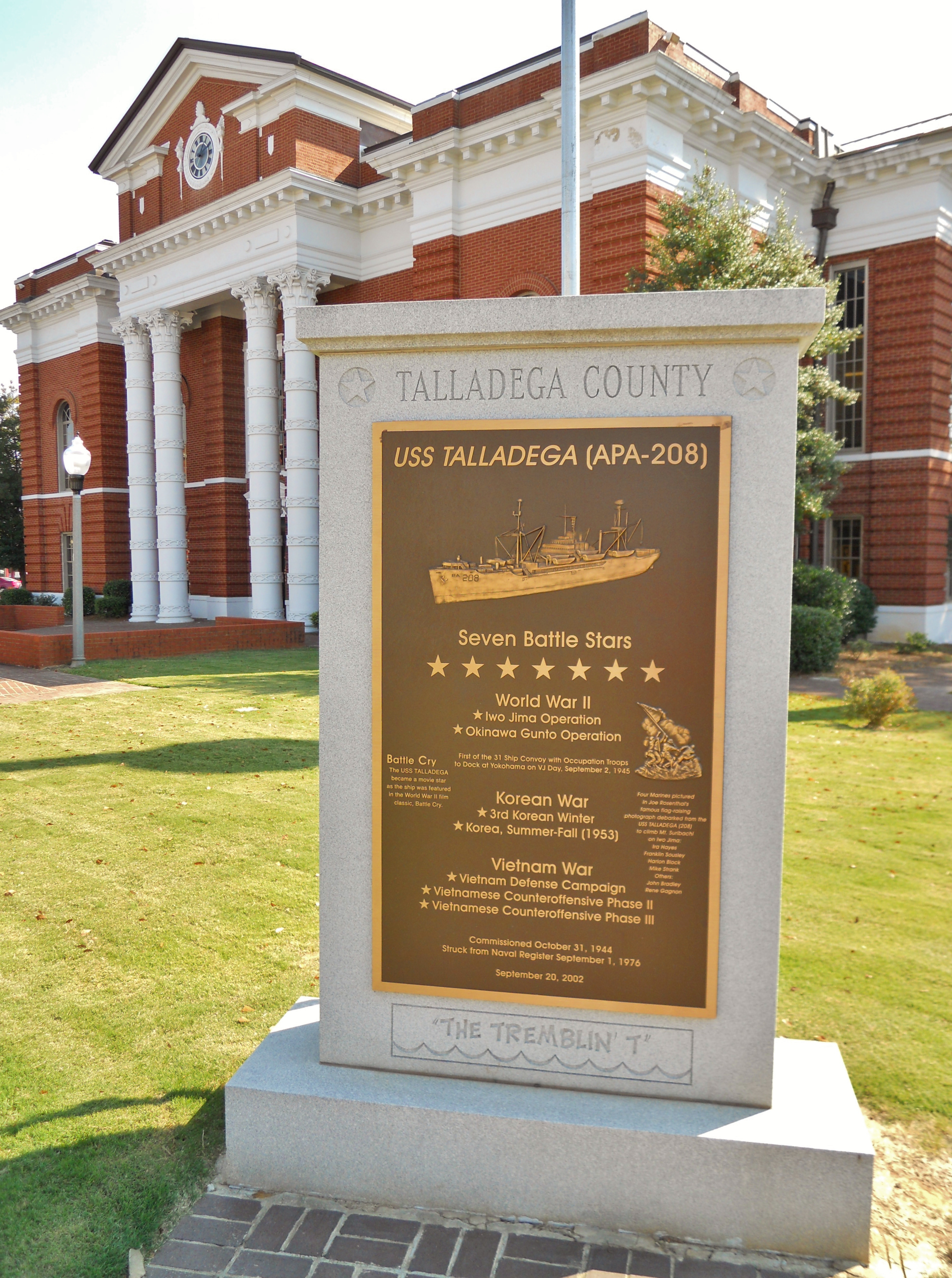 This is a photograph of the USS Talladega Memorial in Talladega, Alabama.